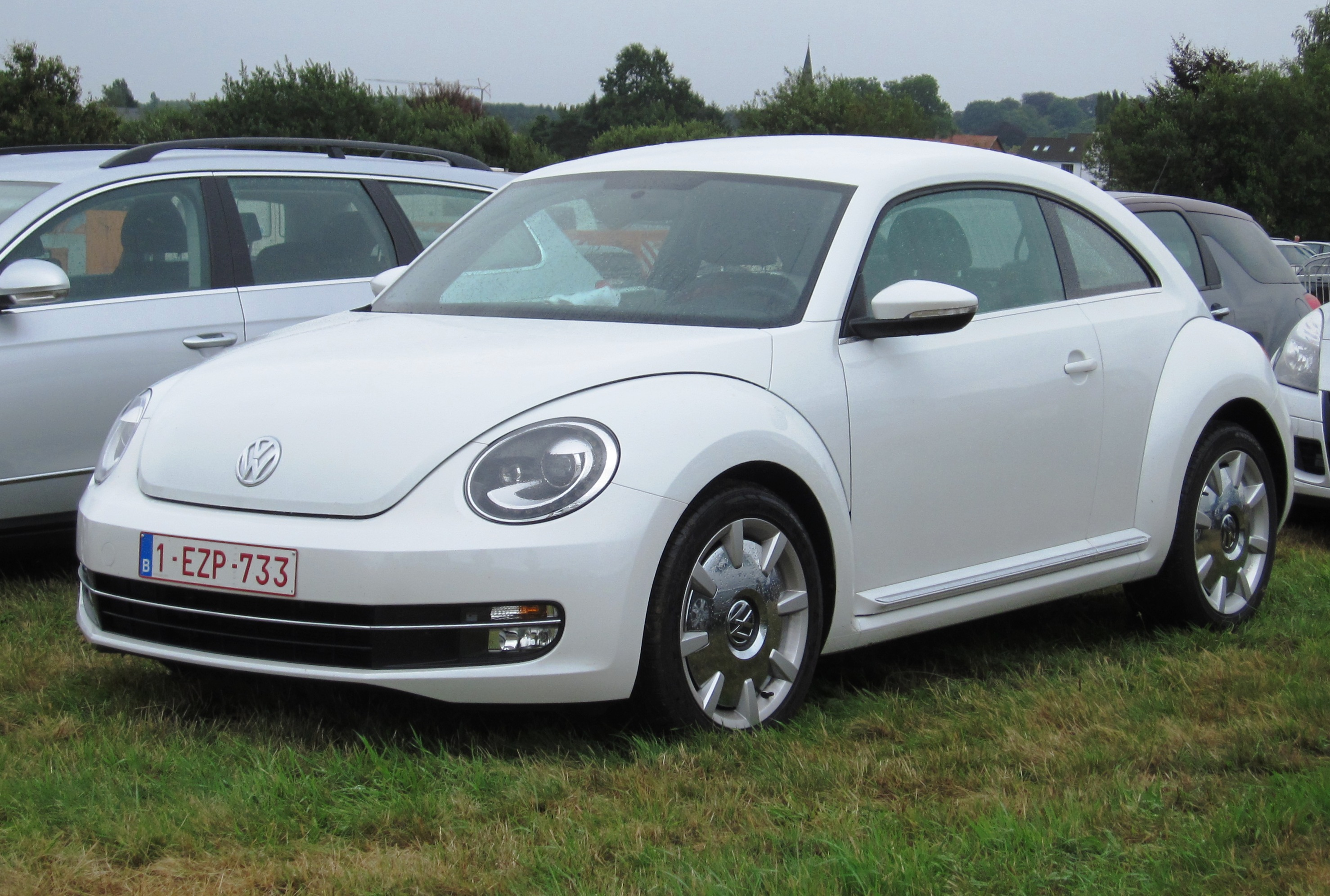 Volkswagen New Beetle 2013